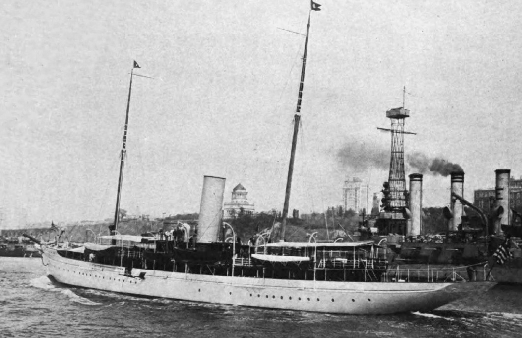 Yacht Alberta, "specially constructed" for the exploring expeditions of Alexander Hamilton Rice and his wife Eleanor Elkins Rice